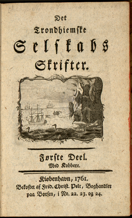 Front page of 1st edition of Transactions of the Royal Norwegian Society of Sciences and Letters